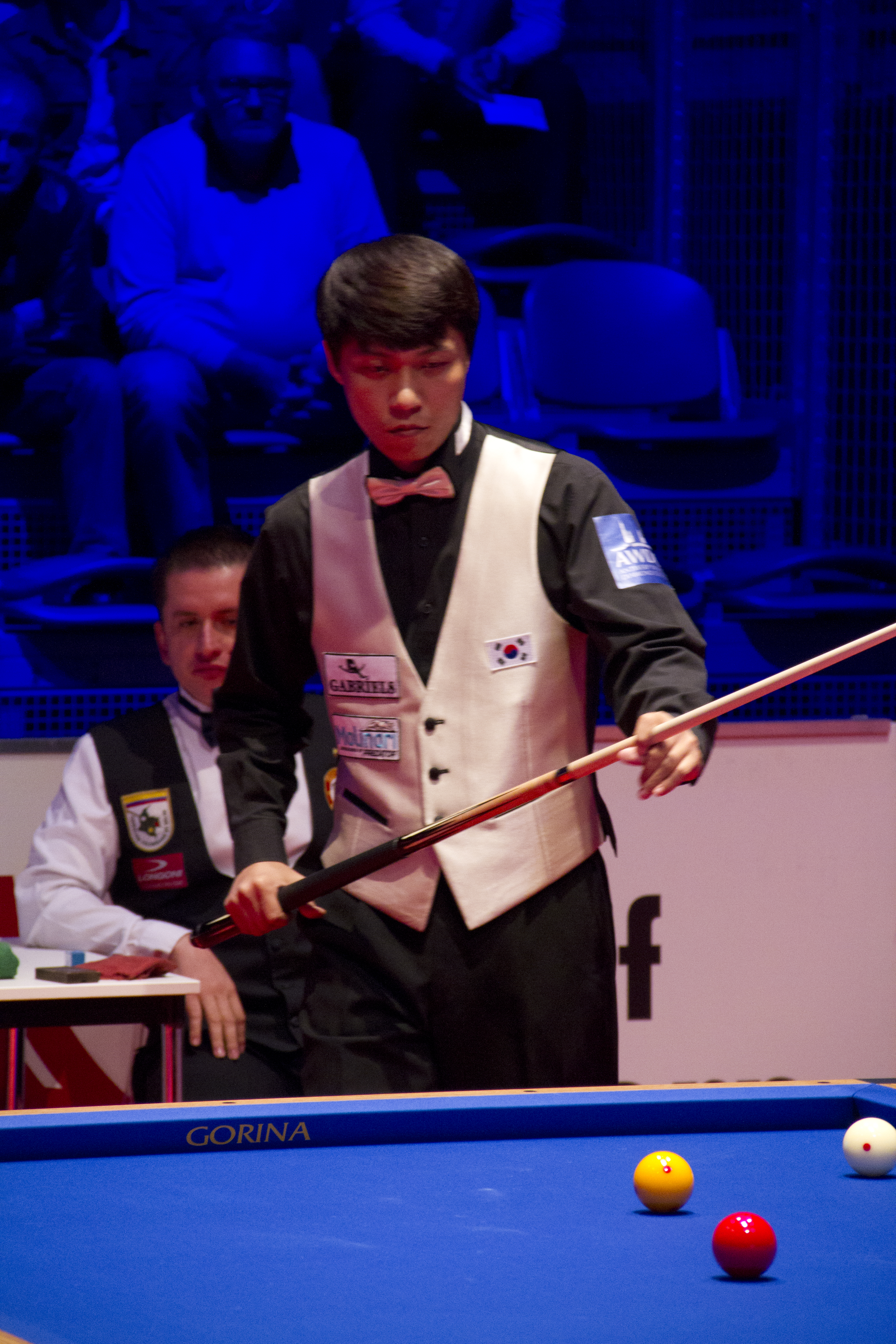 Last 16, Matches 1–4 (Part 1)